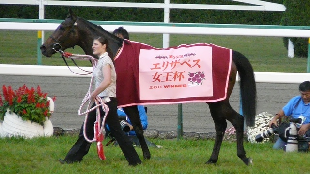 Snow-Fairy20111113